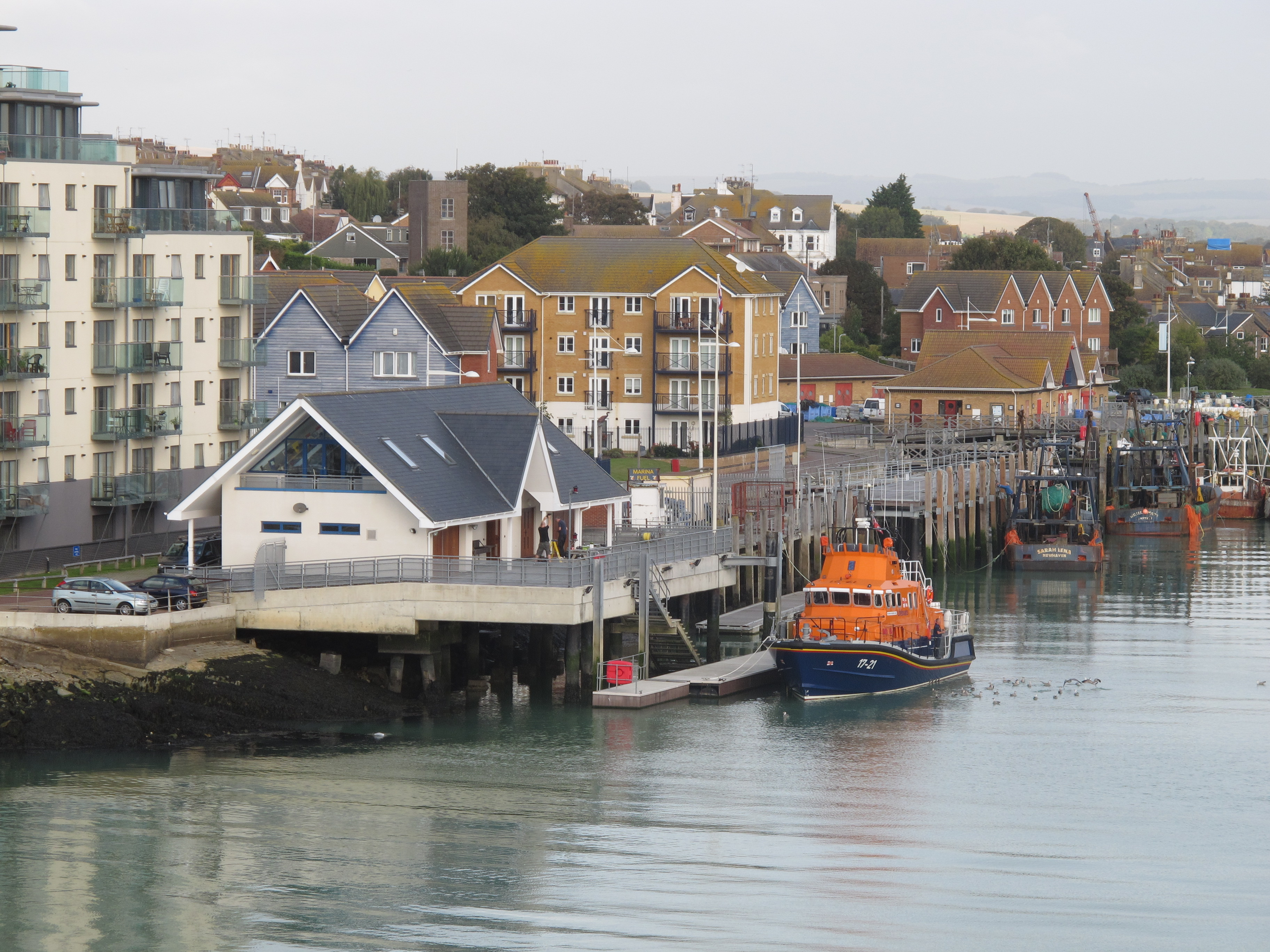 Newhaven lifeboat. Newhaven lifeboat station was founded in 1803, before the RNLI was founded. Near to Newhaven, East Sussex, Great Britain.